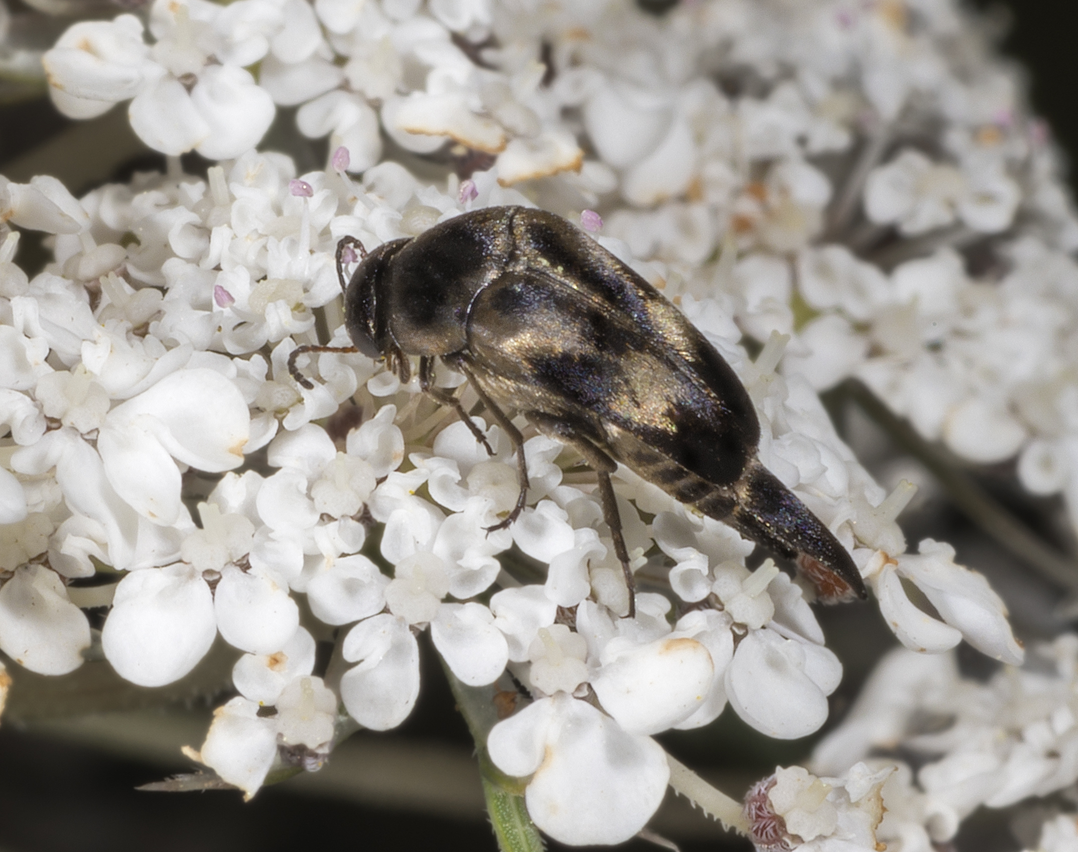 Variimorda villosa. Side view